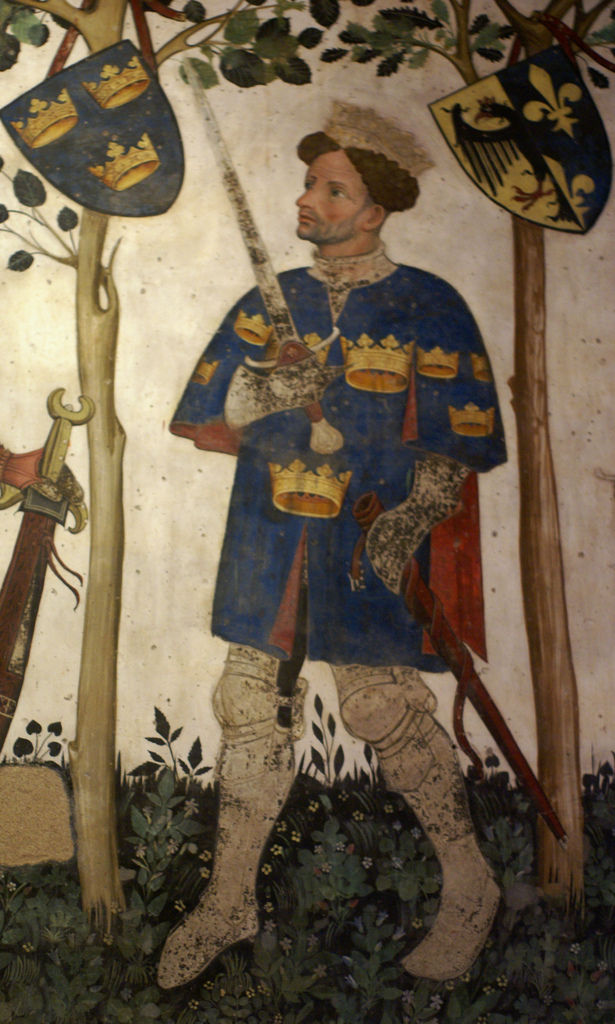 Thomas I of Saluzzo as King Arthur